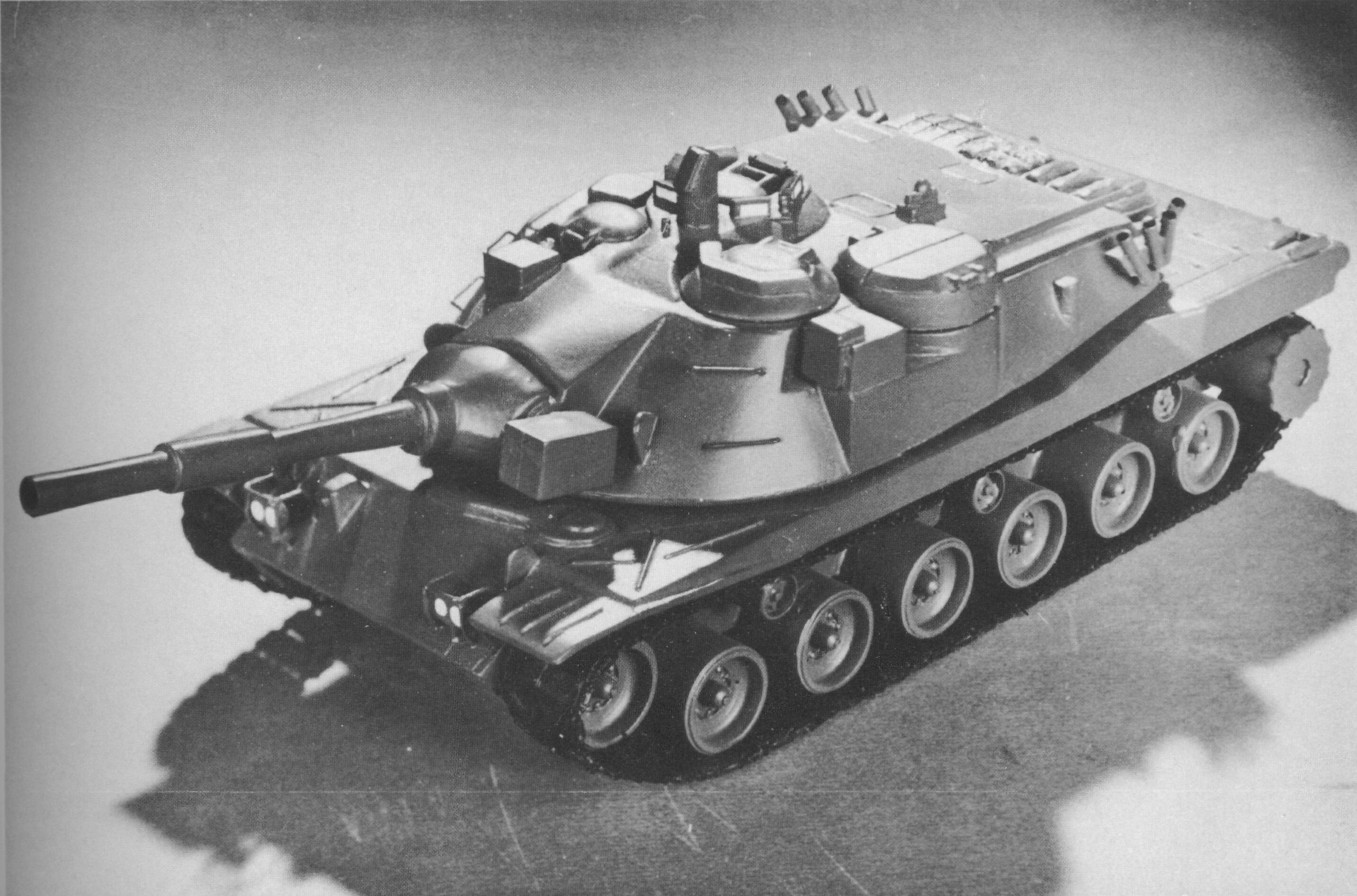 Model of MBT-70 final design.